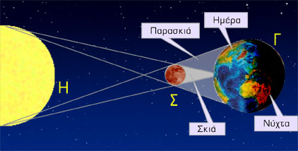 Solar eclipse graph in Greek